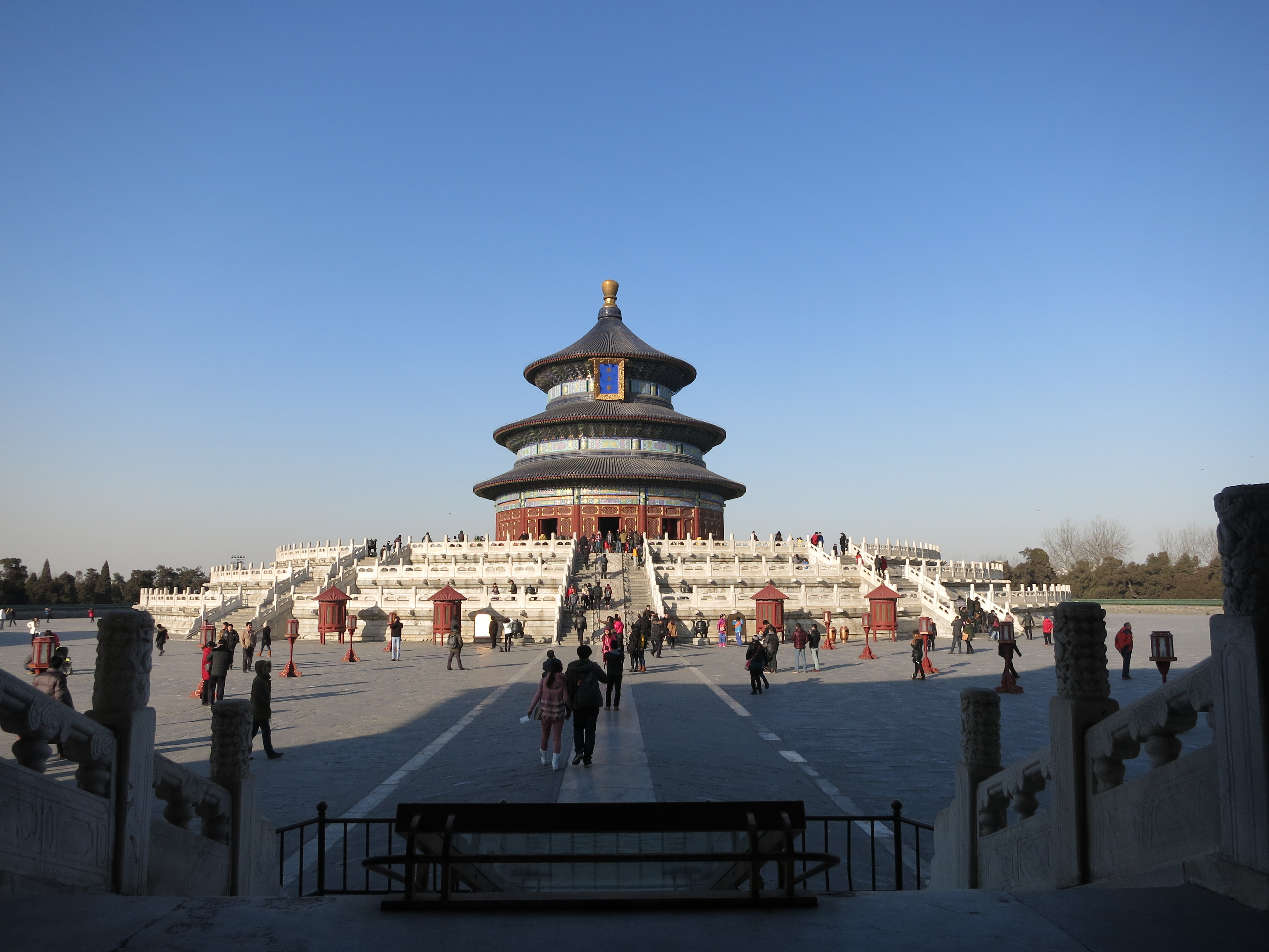 Temple of Heaven (Tiantan Park)